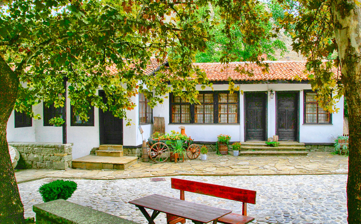 Ethnographic - Genger